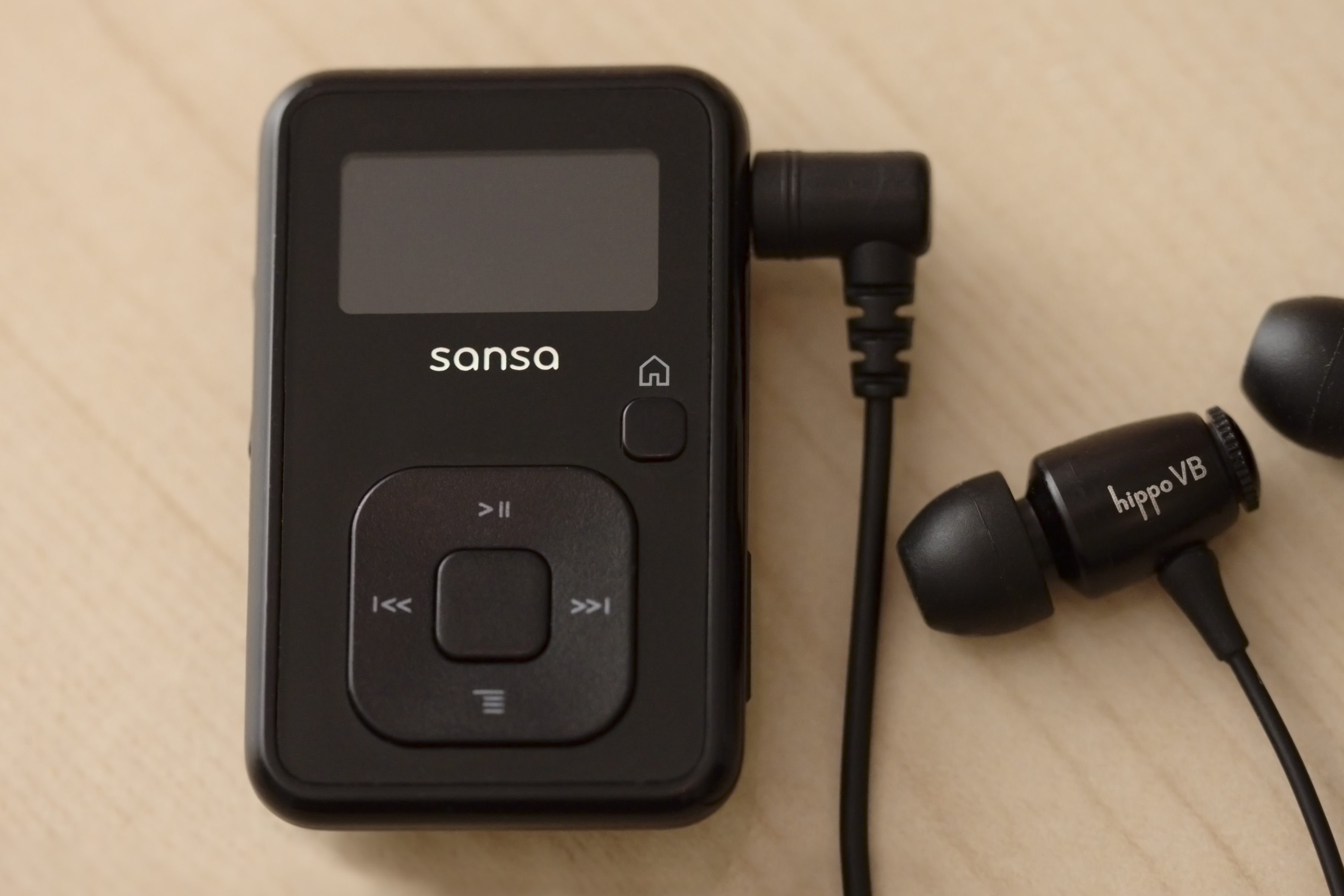 Sansa Clip+ 8GB (black version) and Hippo VB in-ear headphones.